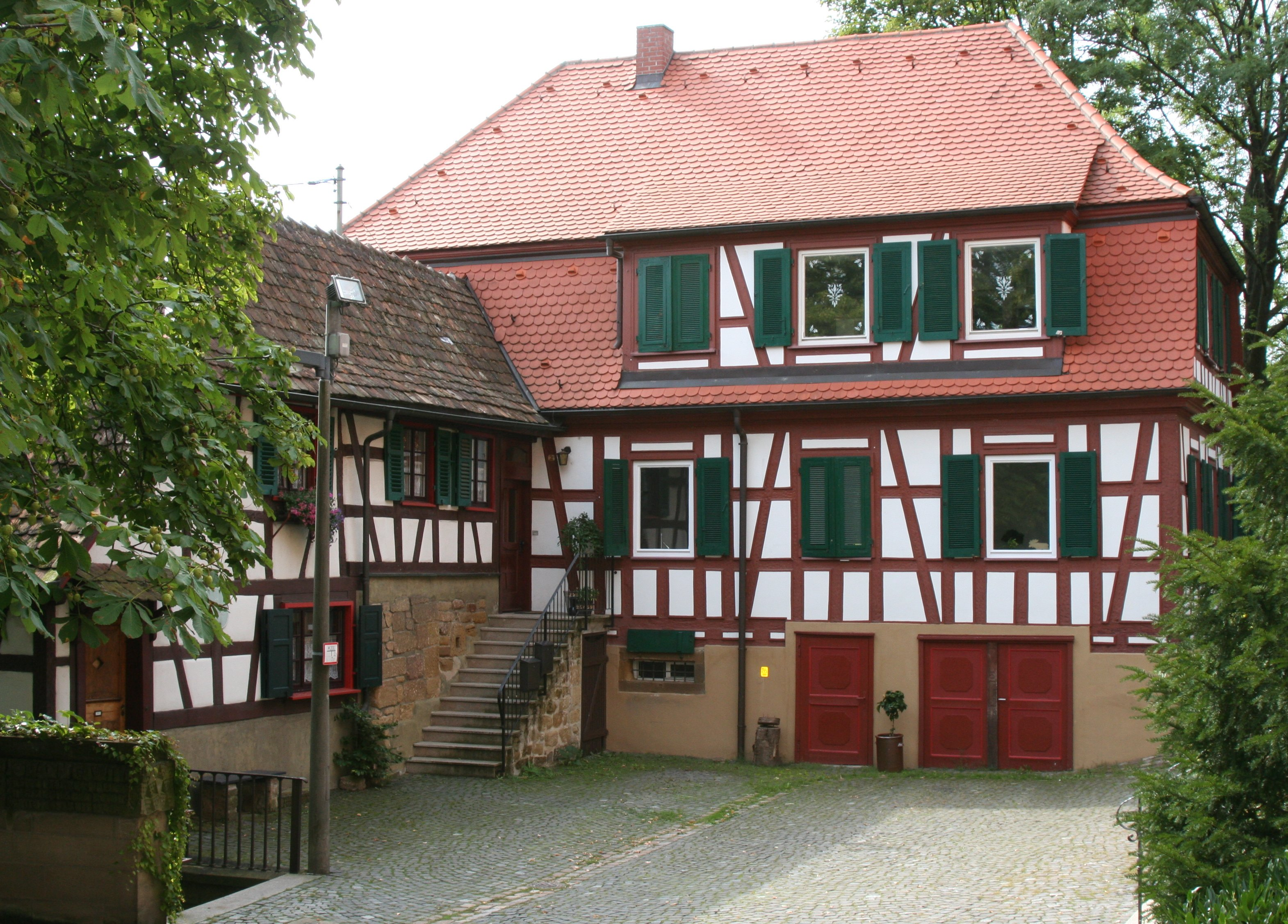 Weinsberg, building Ökolampadiusplatz 2 (former girls' school of 1807)